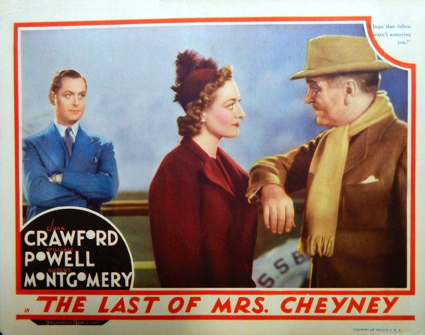 Lobby card for the 1937 film The Last of Mrs. Cheyney. The item has no copyright marks on it as can be seen at links and original upload. At bottom right is Country of origin USA.